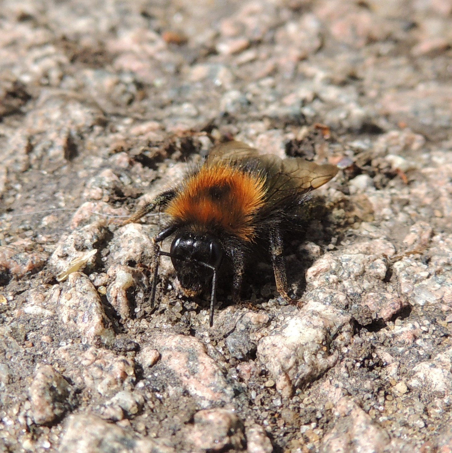 Bumblebee (Bombus hypnorum), Sandy, Bedfordshire